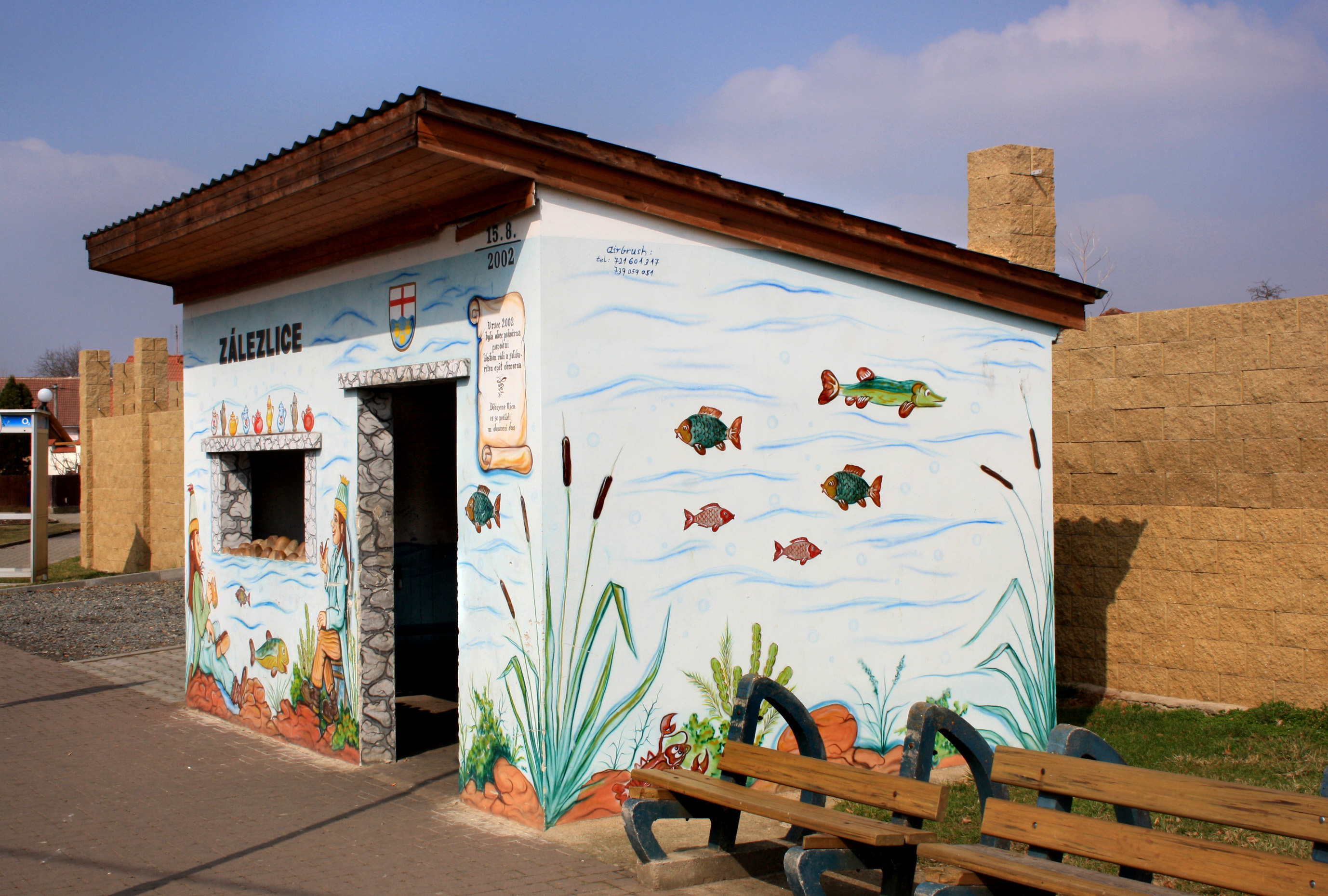 Bus shelter in Zálezlice, Czech Republic